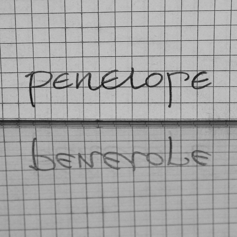 Mirror Ambigram Penelope / benevole readable through a symmetry of horizontal axis. This picture has become a meme on the web immediately after its posting the 5th of February 2017. Penelope Fillon, wife of French politician and former Prime Minister of France François Fillon, is suspected of having received wages for a fictitious job. Ironically, or paradox, her name upside down becomes benevole (voluntary in French), suggesting dedication for a free service. Shared tens of thousands of times on the social networks, this image made the buzz the day after its diffusion on Wikimedia Commons via several French, Belgian and Switz medias, such as Le Matin, Le Soir, Télé Star, or Sud Info.